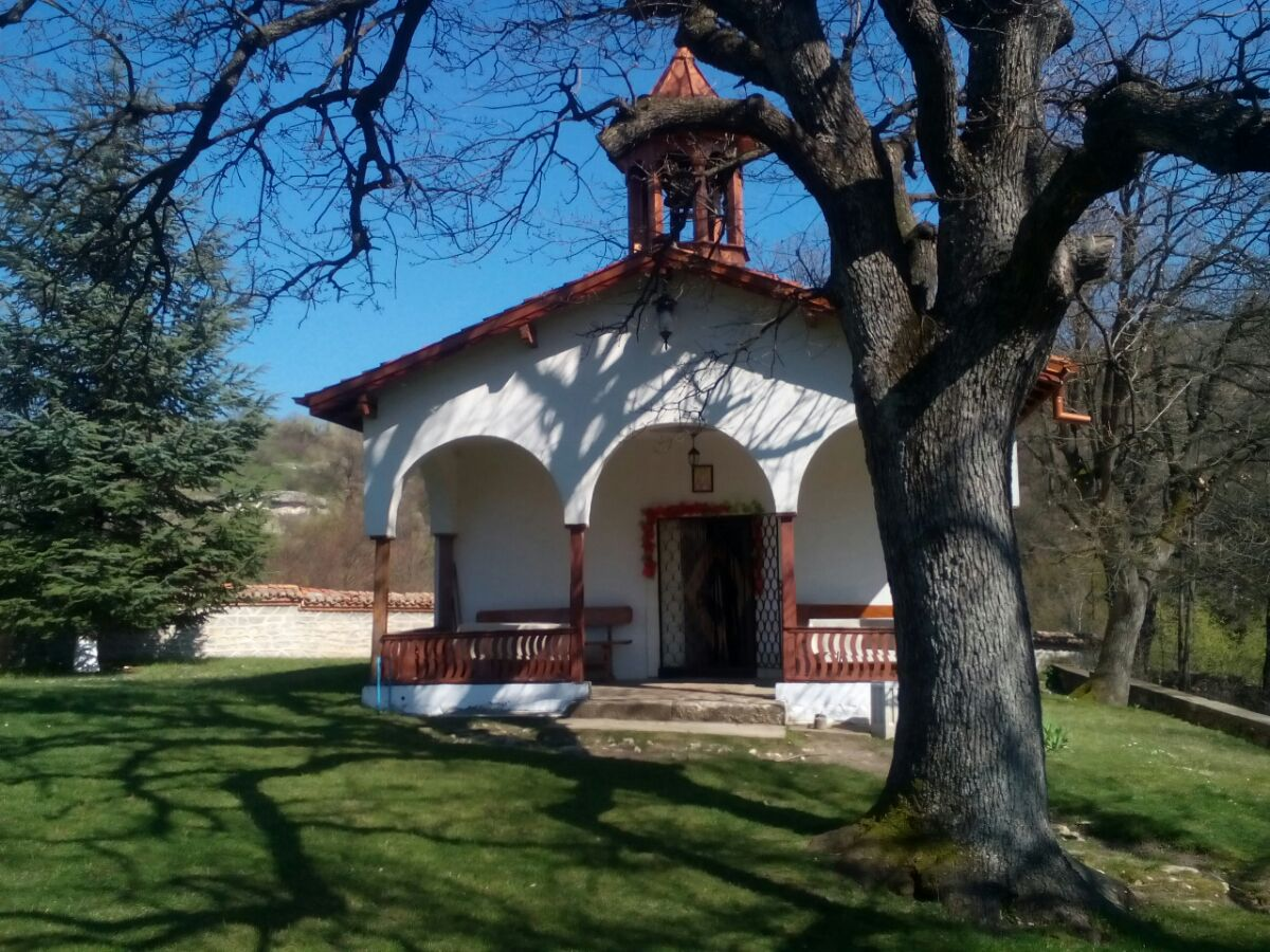 Monastery of Saint Athanasius